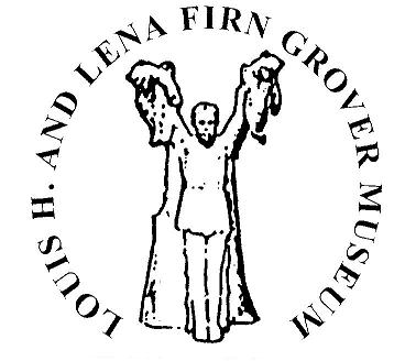 Grover Museum's Logo